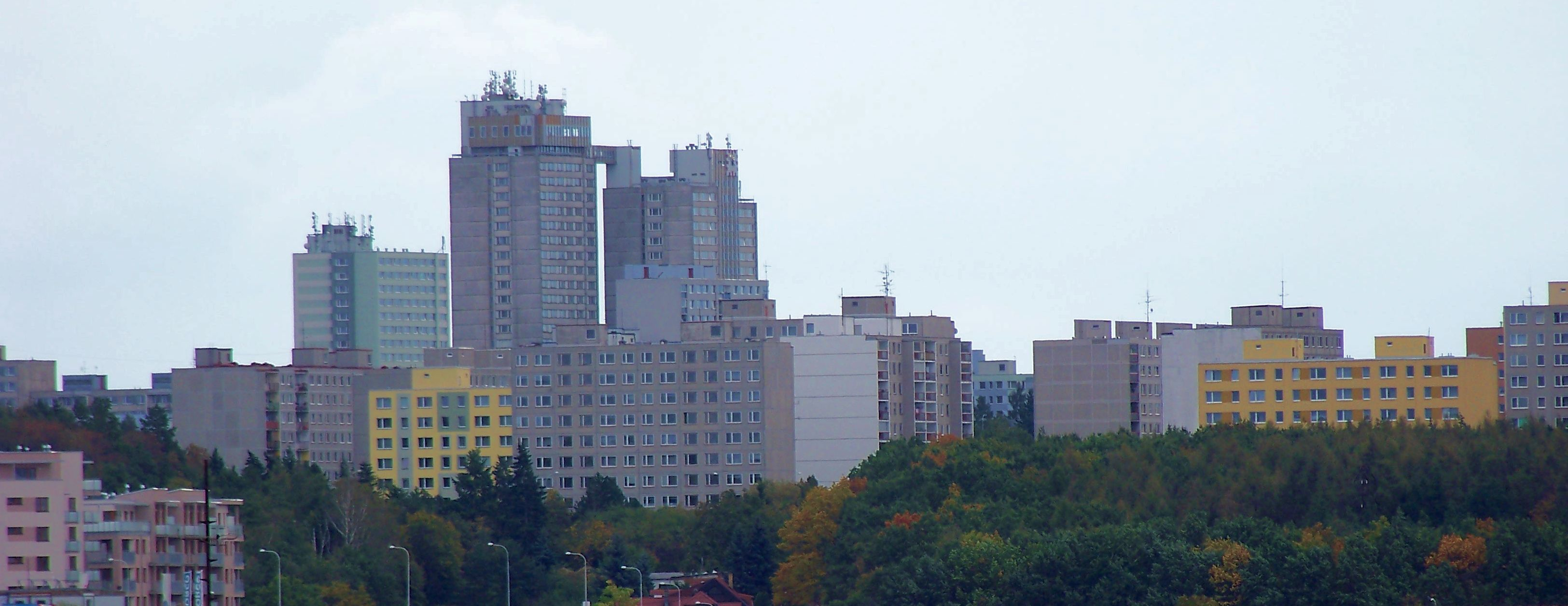 A view of Prague-Háje from Arnika Building (Záběhlice-Zahradní Město, Prague, the Czech Republic).